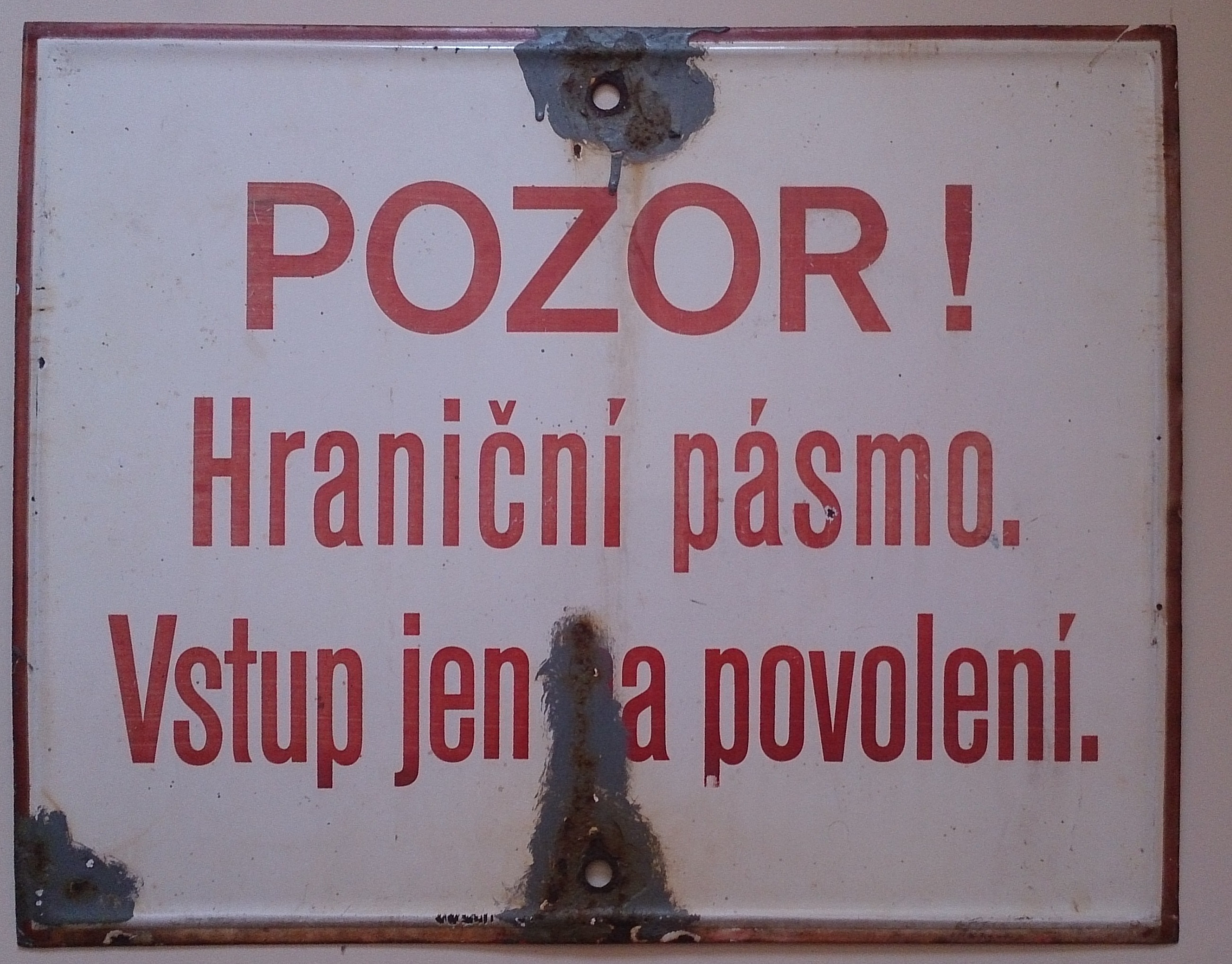 Czechoslovak sign from the beginning of the 80th, providing information about entry to the frontier zone. "WARNING! Border Zone. Enter only on authorization.